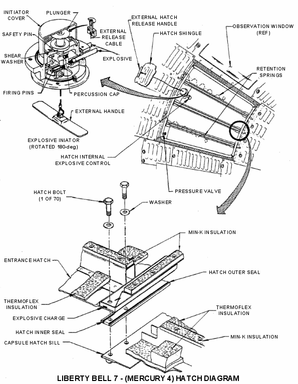 Liberty Bell 7 Explosive Hatch Diagram. From the NASA Mercury Spacecraft Familiarization Manual - May 1962